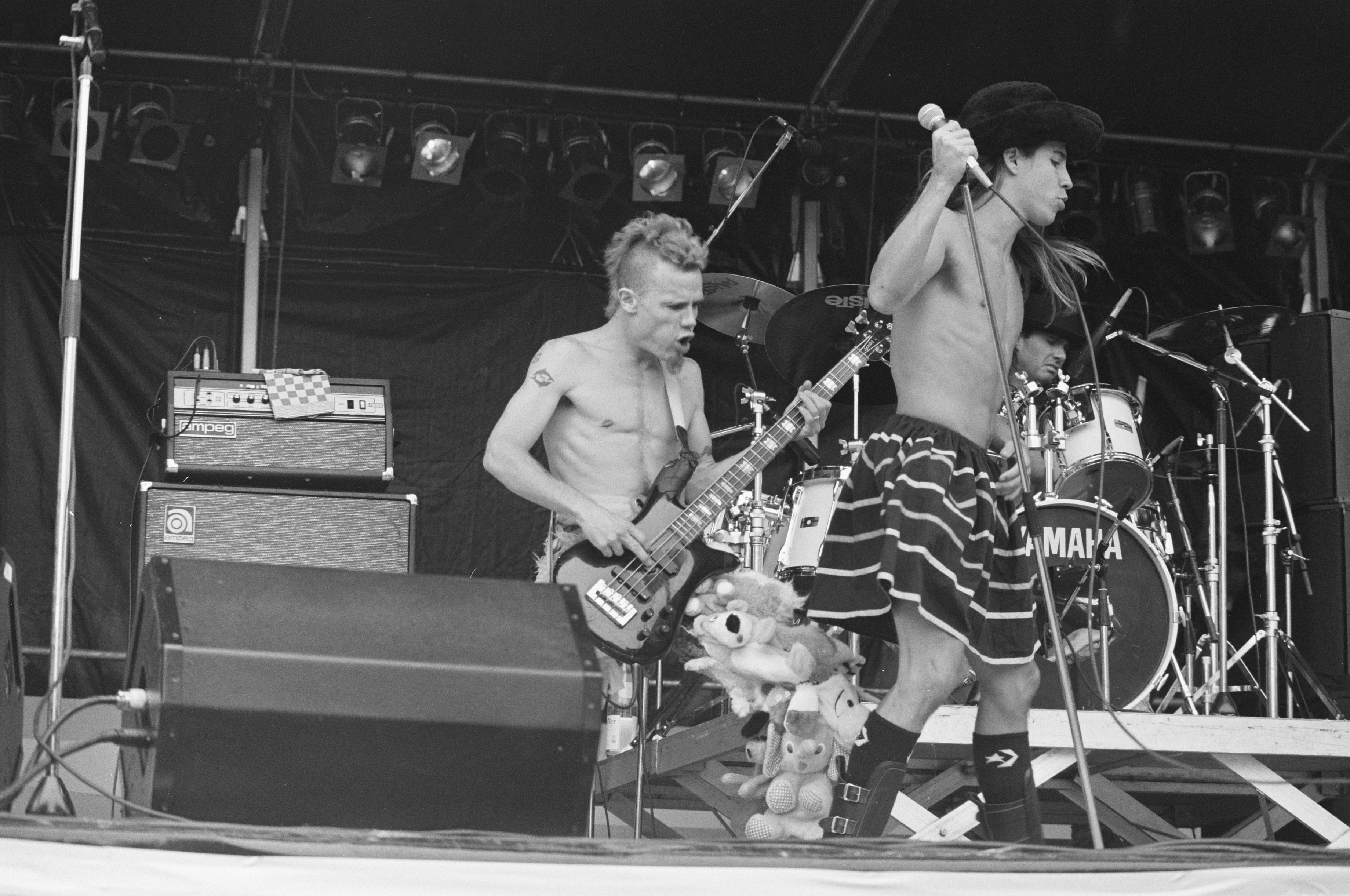 Red Hot Chili Peppers, Uitmarkt 26 Aug. 1989, Amsterdam (the Netherlands)